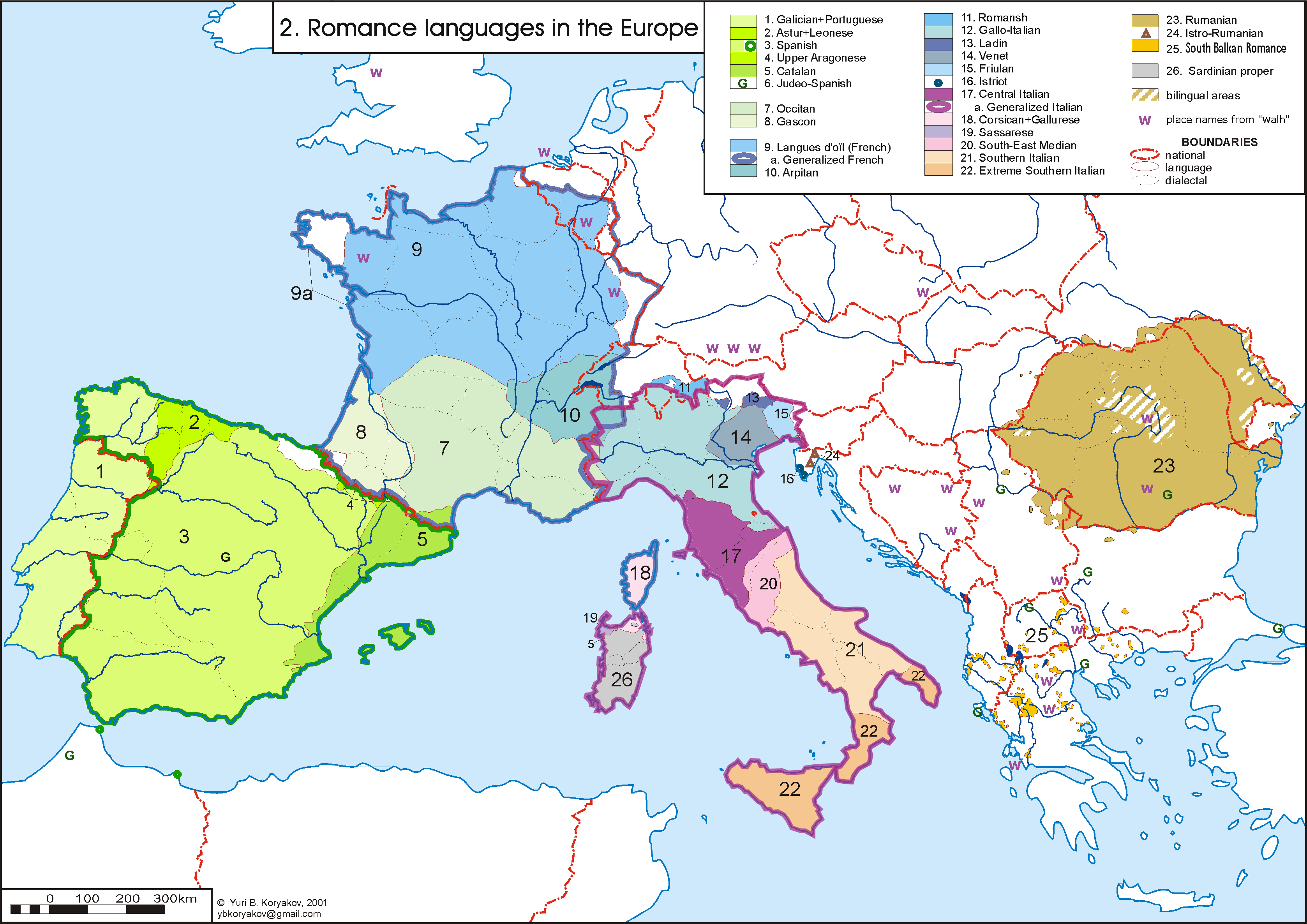 Romance languages in Europe in 20 c. AD. English version. For a Russian one see Image:Romance_20c_ru.png. Based on the map published in "Koryakov Y.B. Atlas of Romance languages. Moscow, 2001".